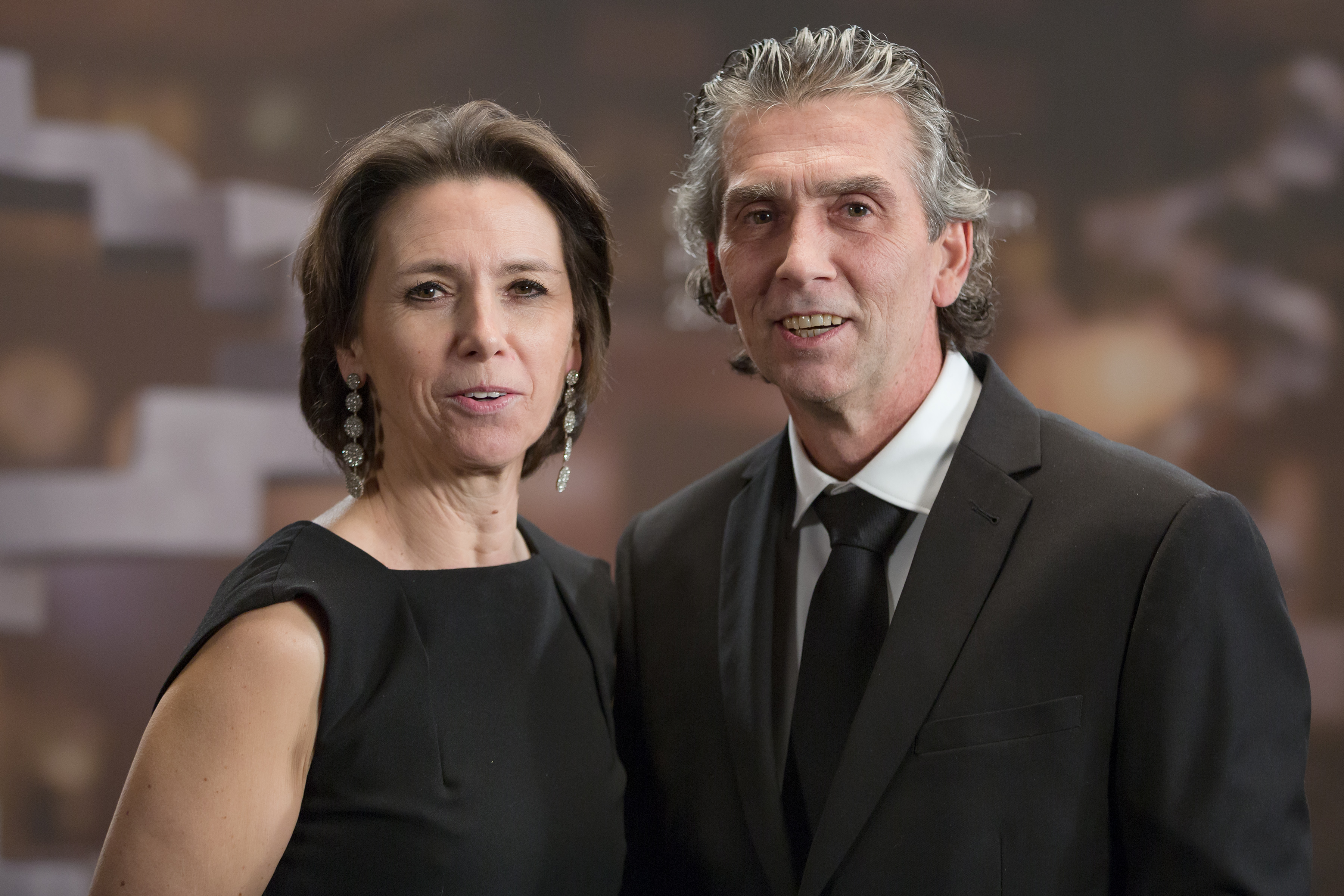 Monika Fischer-Vorauer and Andreas Meixner, theatrical makeup artists for Stefan Zweig: Farewell to Europe, at the Austrian Film Awards 2017 (Rathaus, Vienna,Austria).